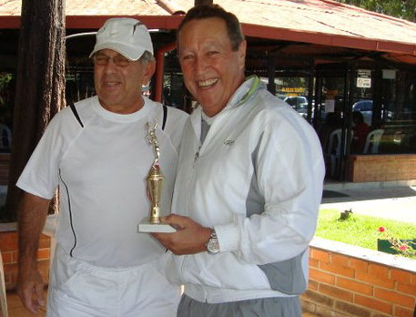 El esfuerzo brinda satisfacción